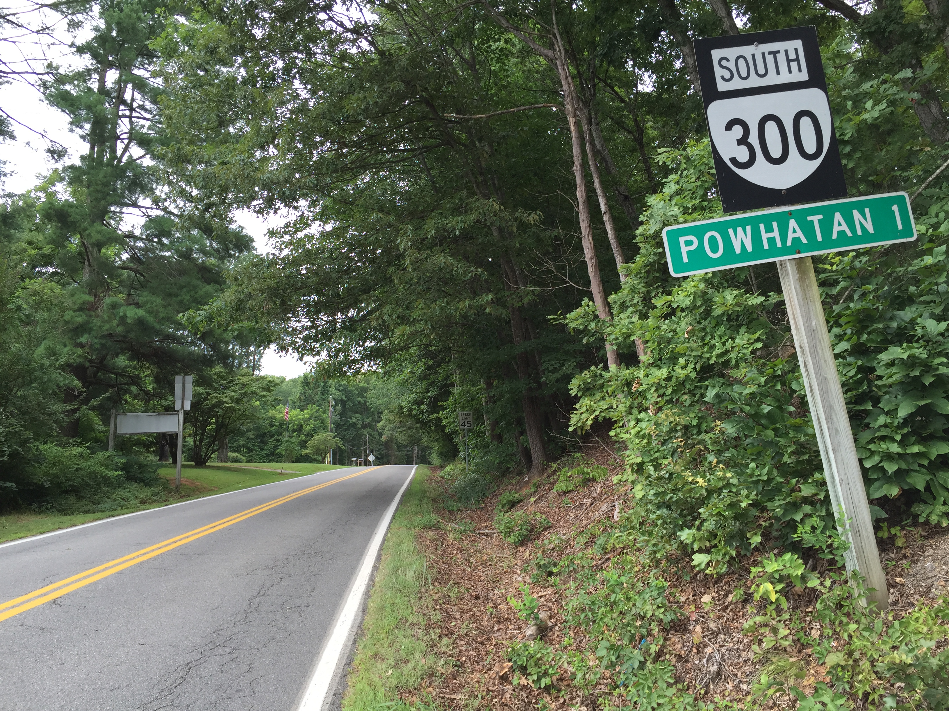 View south along Virginia State Route 300 (Scottville Road) at U.S. Route 60 (Anderson Highway) in Powhatan, Powhatan County, Virginia